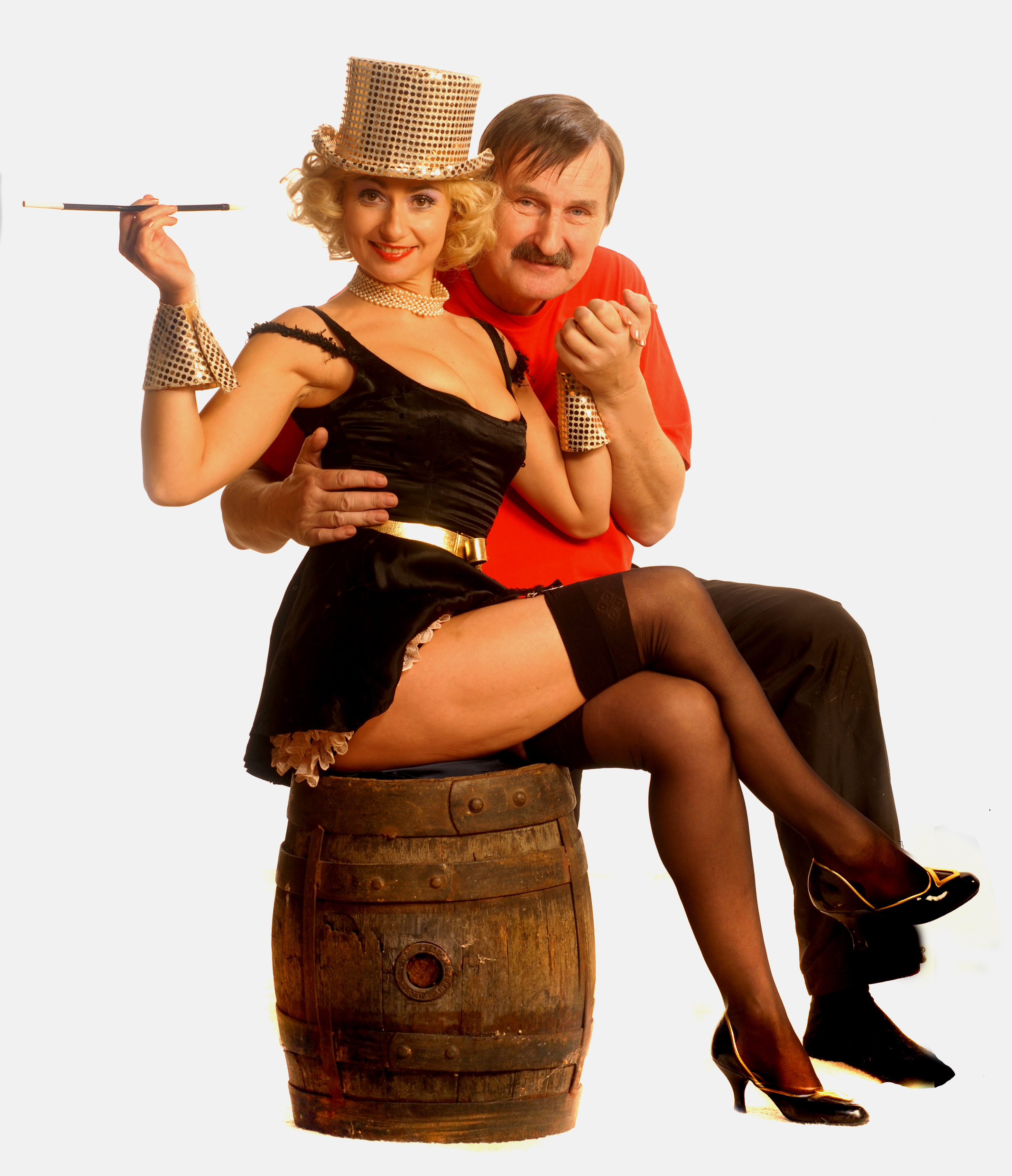 Jef Kratochvil